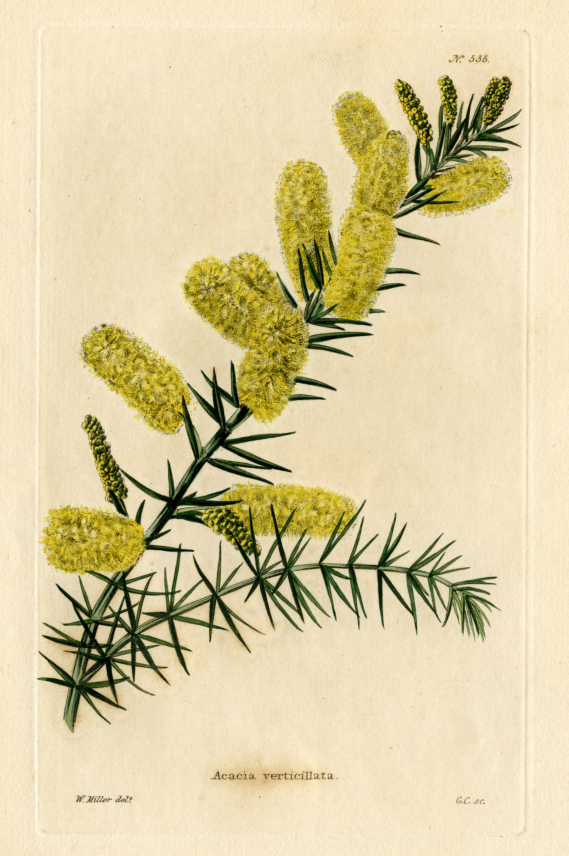 Acacia verticillata drawn by William Miller from "The Botanical Cabinet" (London 1817-1833) plate 535